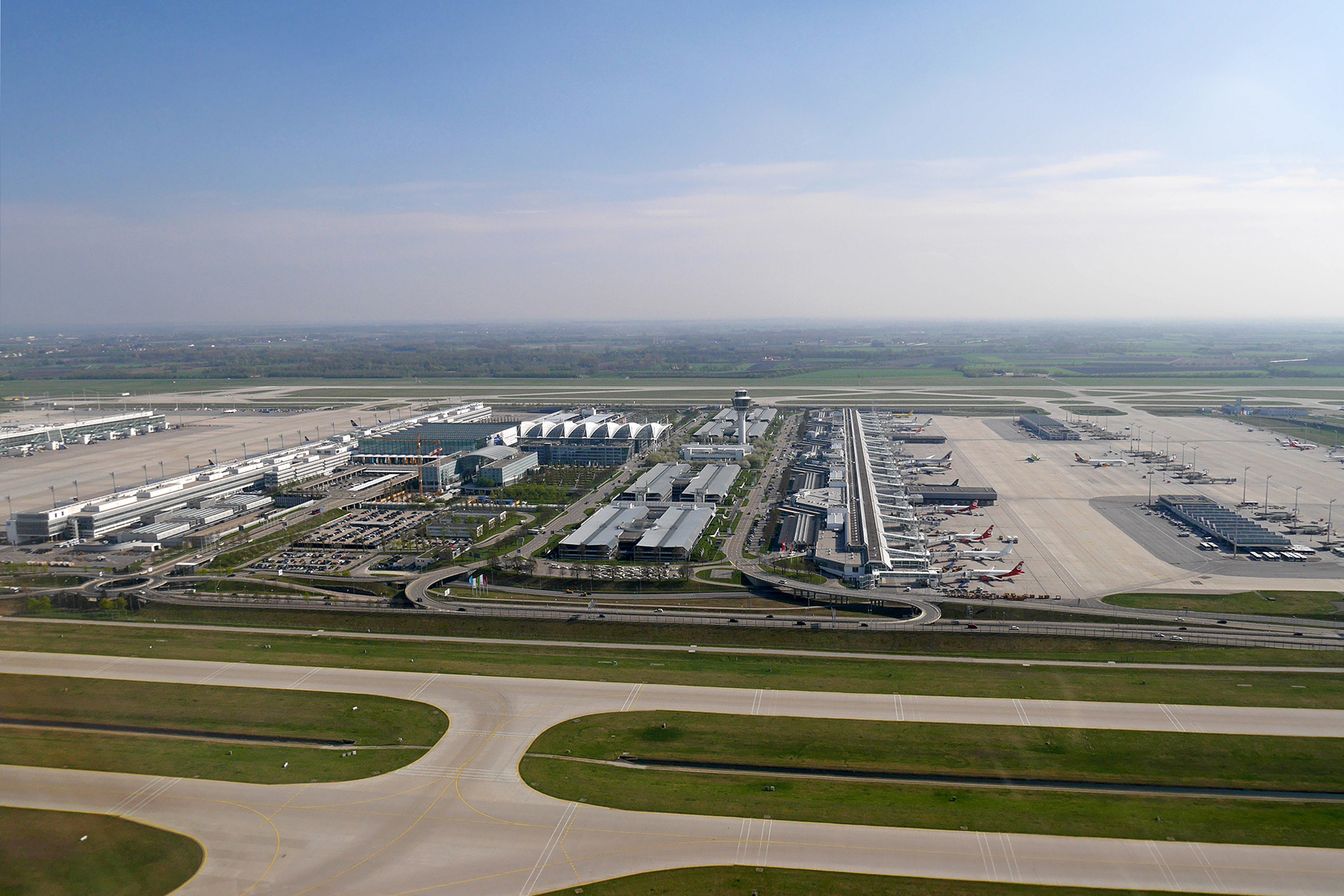 Aerial view of Munic Airport with Terminal 1, Terminal 2 and Munic Airport Center